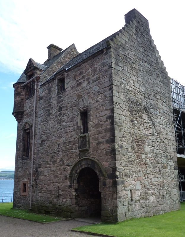 Newark Castle, Port Glasgow, Scotland - gatehouse